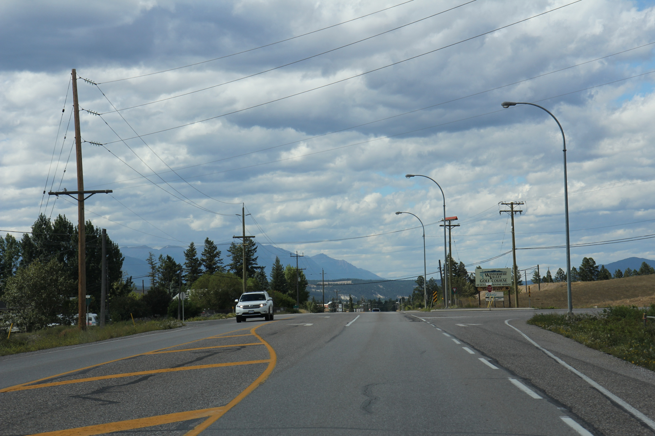 Looking northwest on BC93 / BC95 at Windermere, BC.